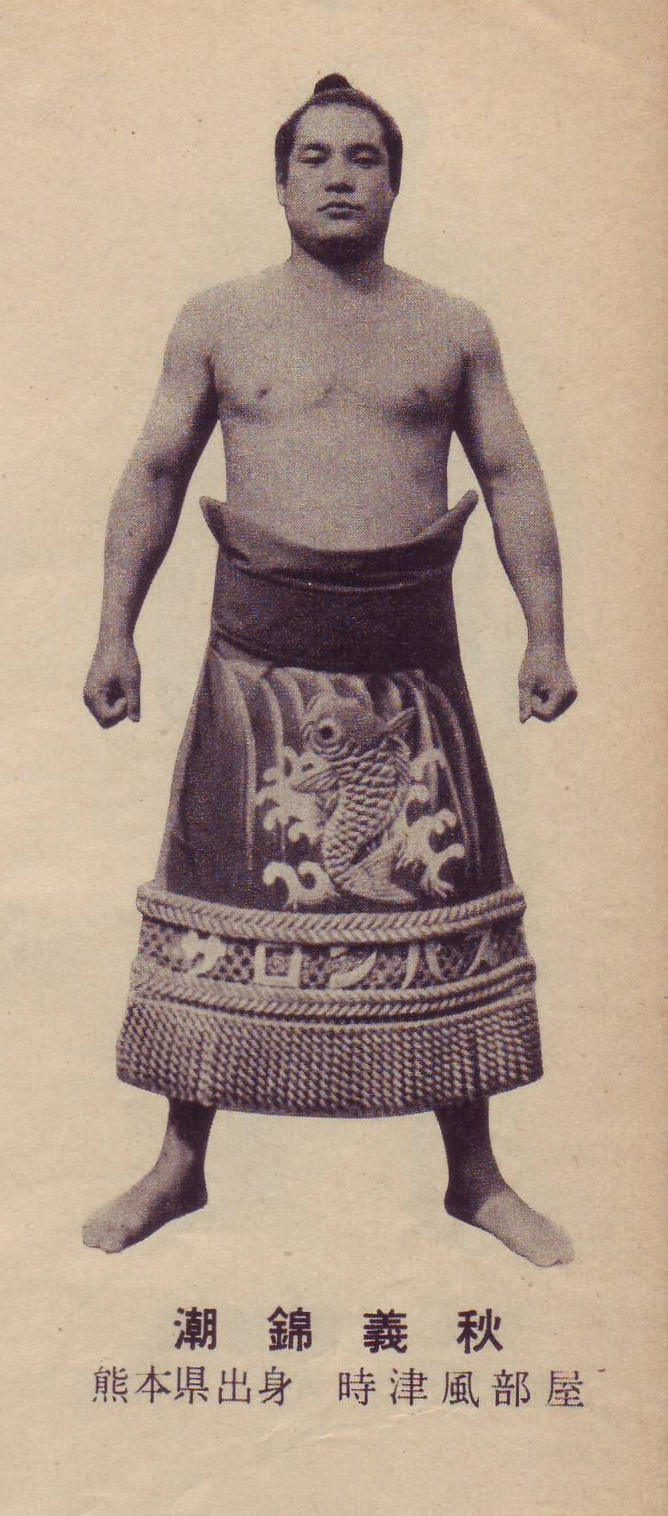 Shionishiki Yoshiaki (Sumo wrestler from Japan. Komusubi). taken in 1958, or before that.